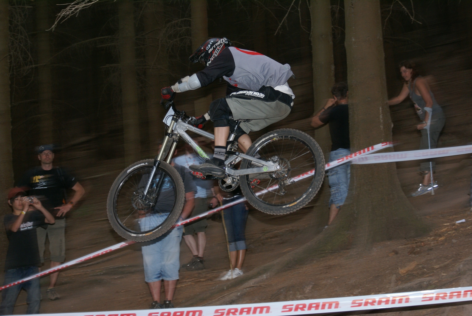 German Downhill Racer Jonathan Debus at the German Championships in Downhill in Tabarz 2008